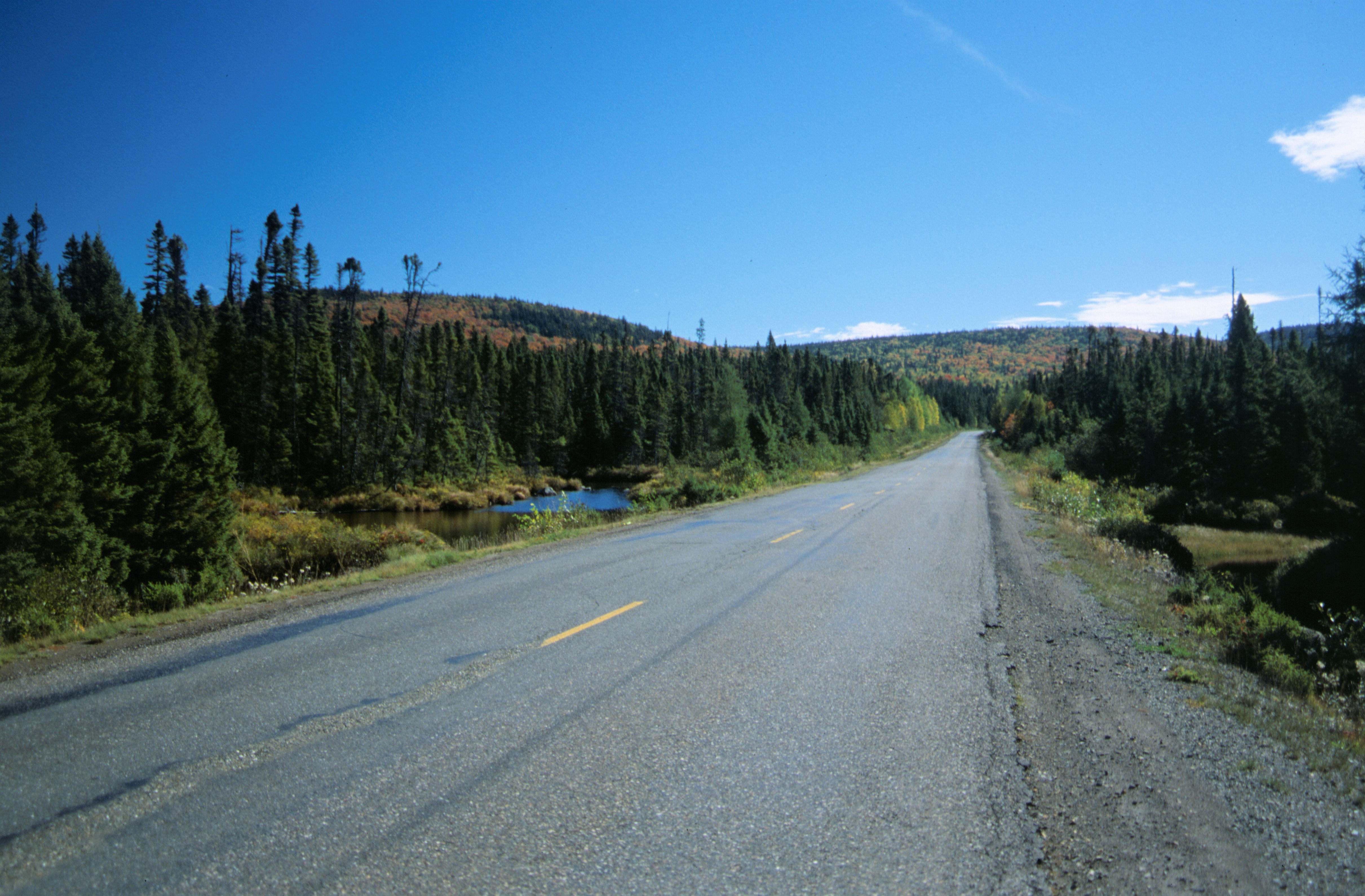 The New Brunswick Route 108, picture #2